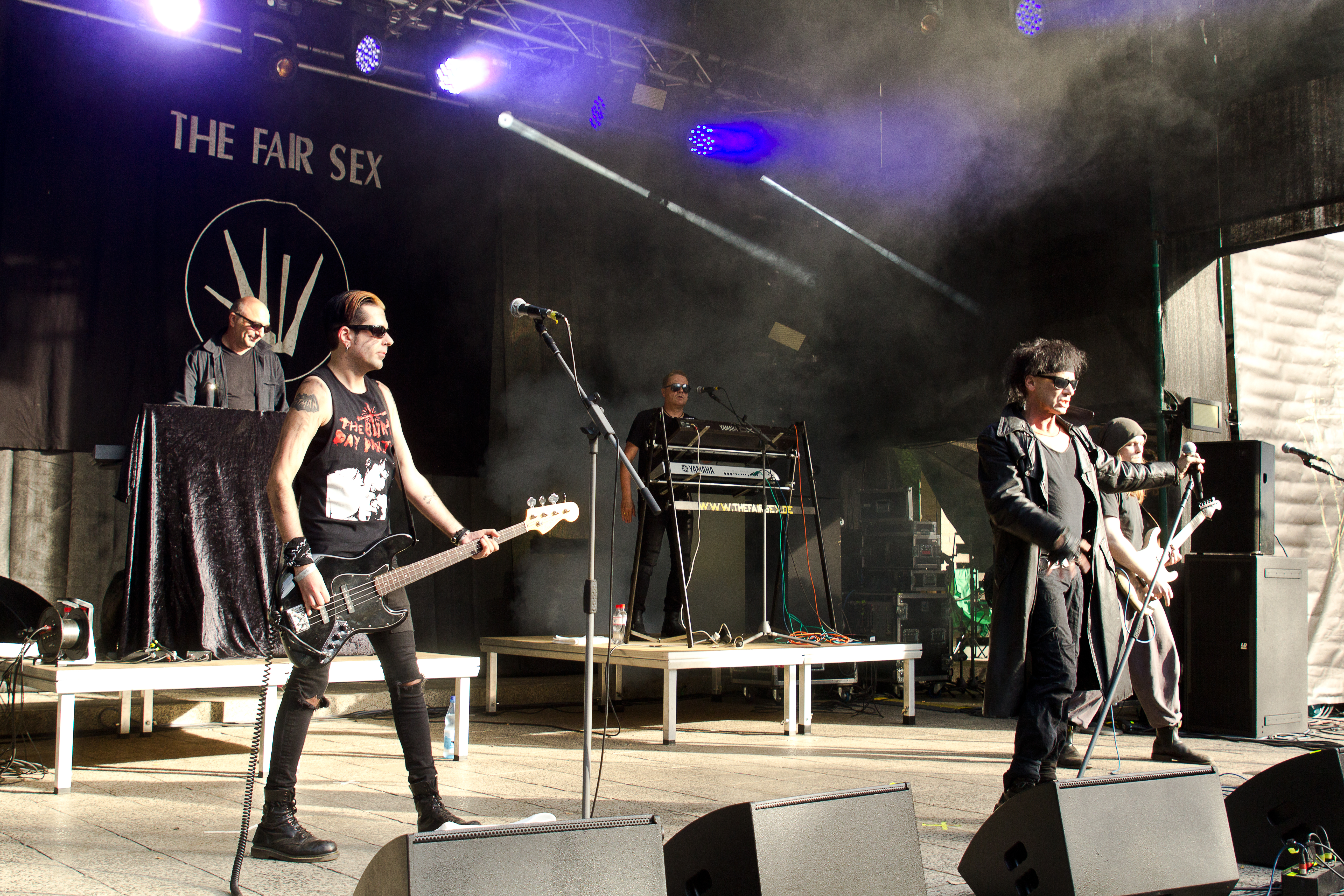 The German electro wave gothic band The Fair Sex at the Nocturnal Culture Night 11 2016 in Deutzen/Germany.